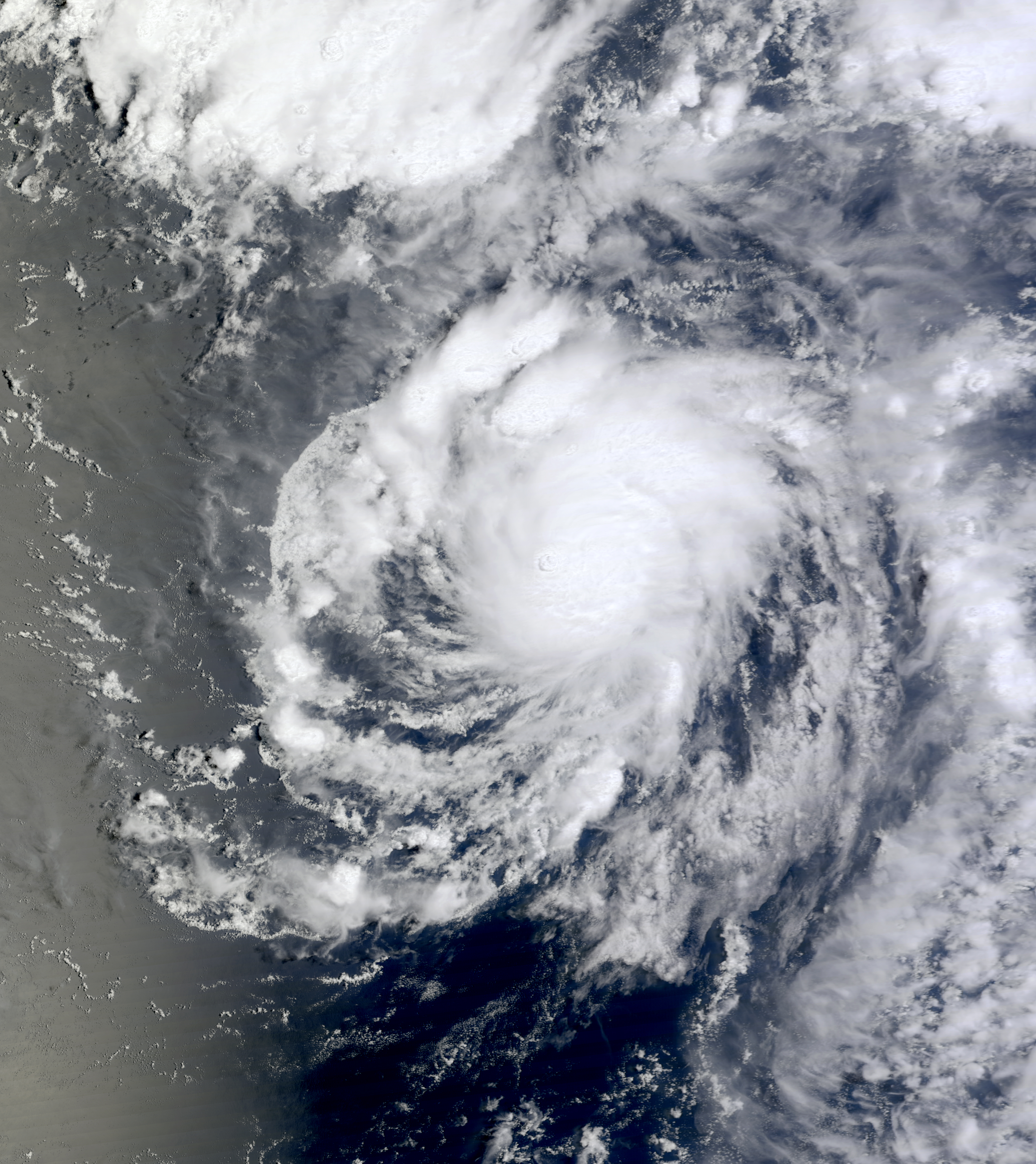 Tropical Storm Pewa on August 17, 2013